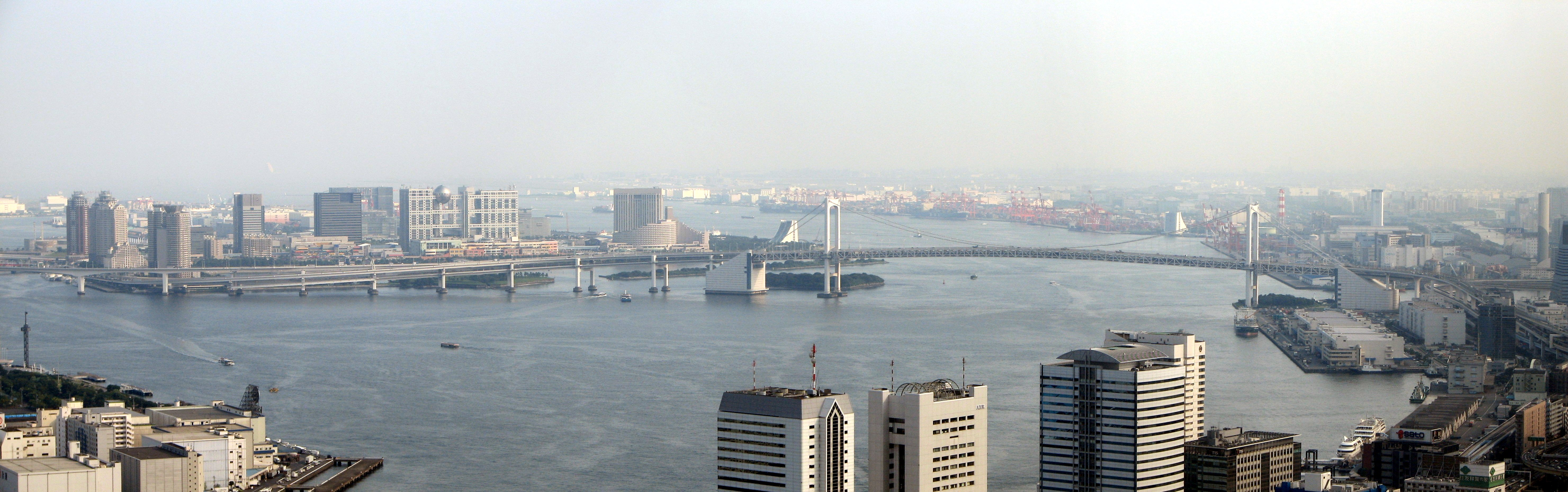 The Rainbow Bridge in Tokyo as seen from Shiodome. Stitched from multiple images.